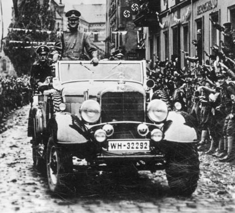 Hitler in Kraslice, October 4, 1938